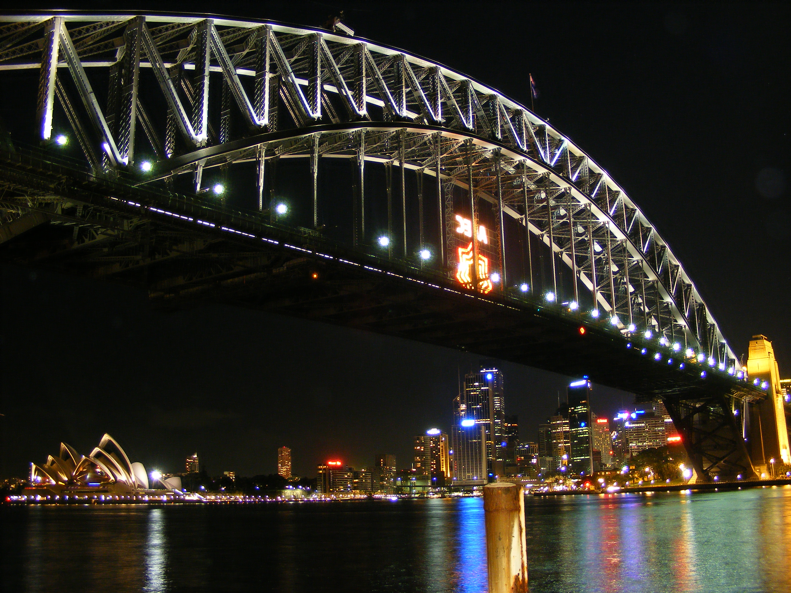 Sydney Harbour Bridge